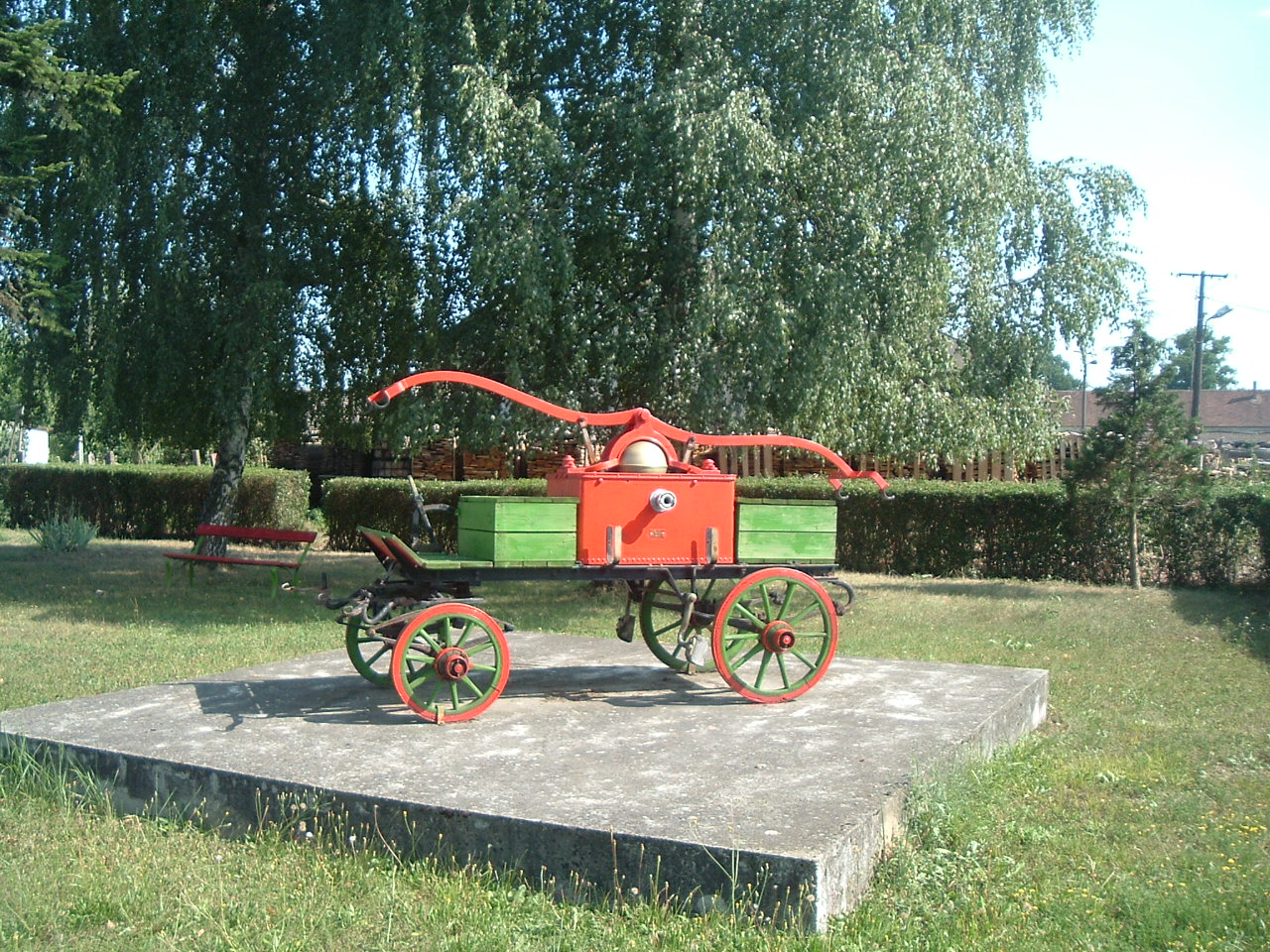 Old fire-cart in Rátót